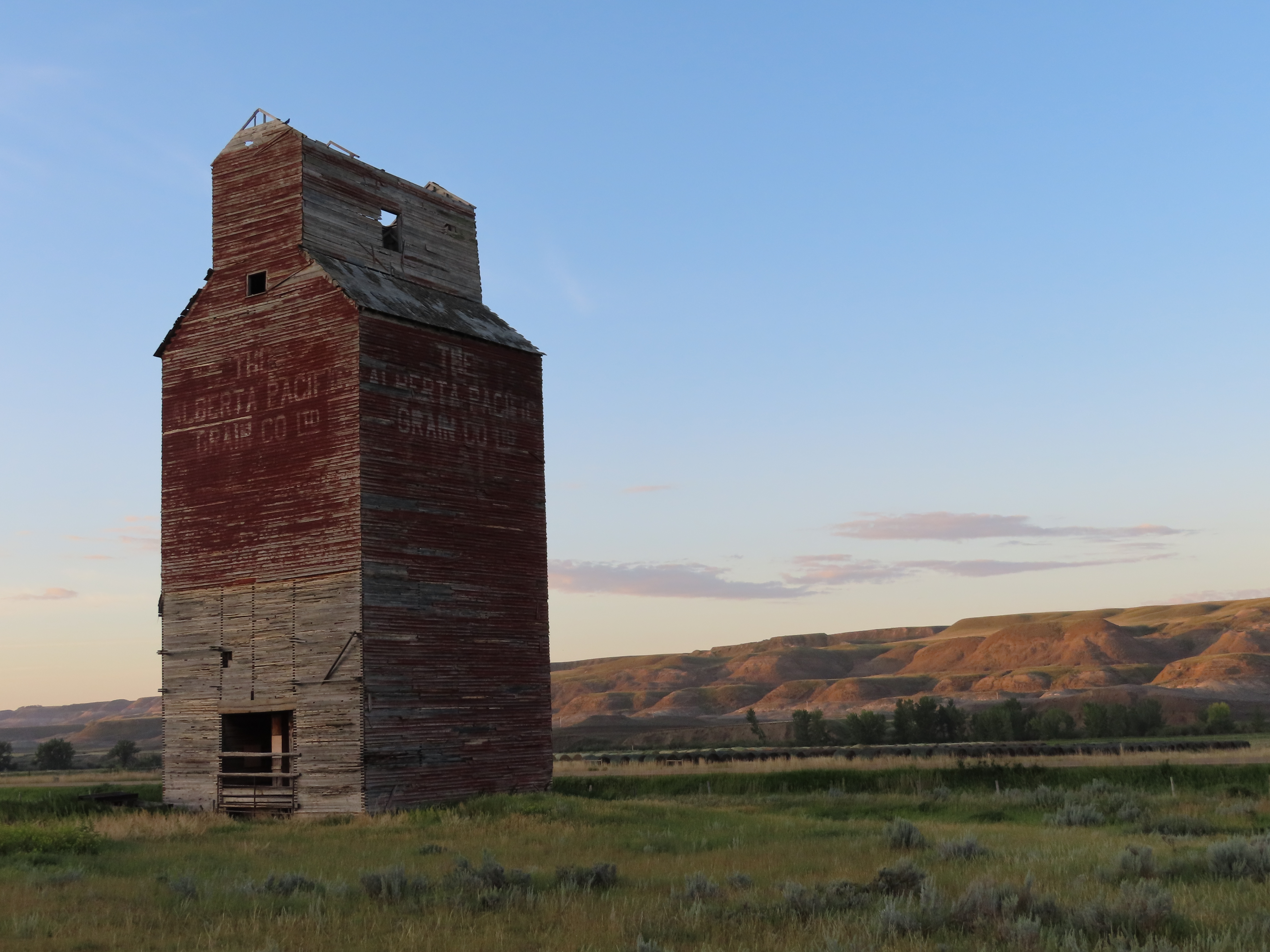 Grain elevator in Dorothy, Alberta, shortly before dawn breaks over the coulee.